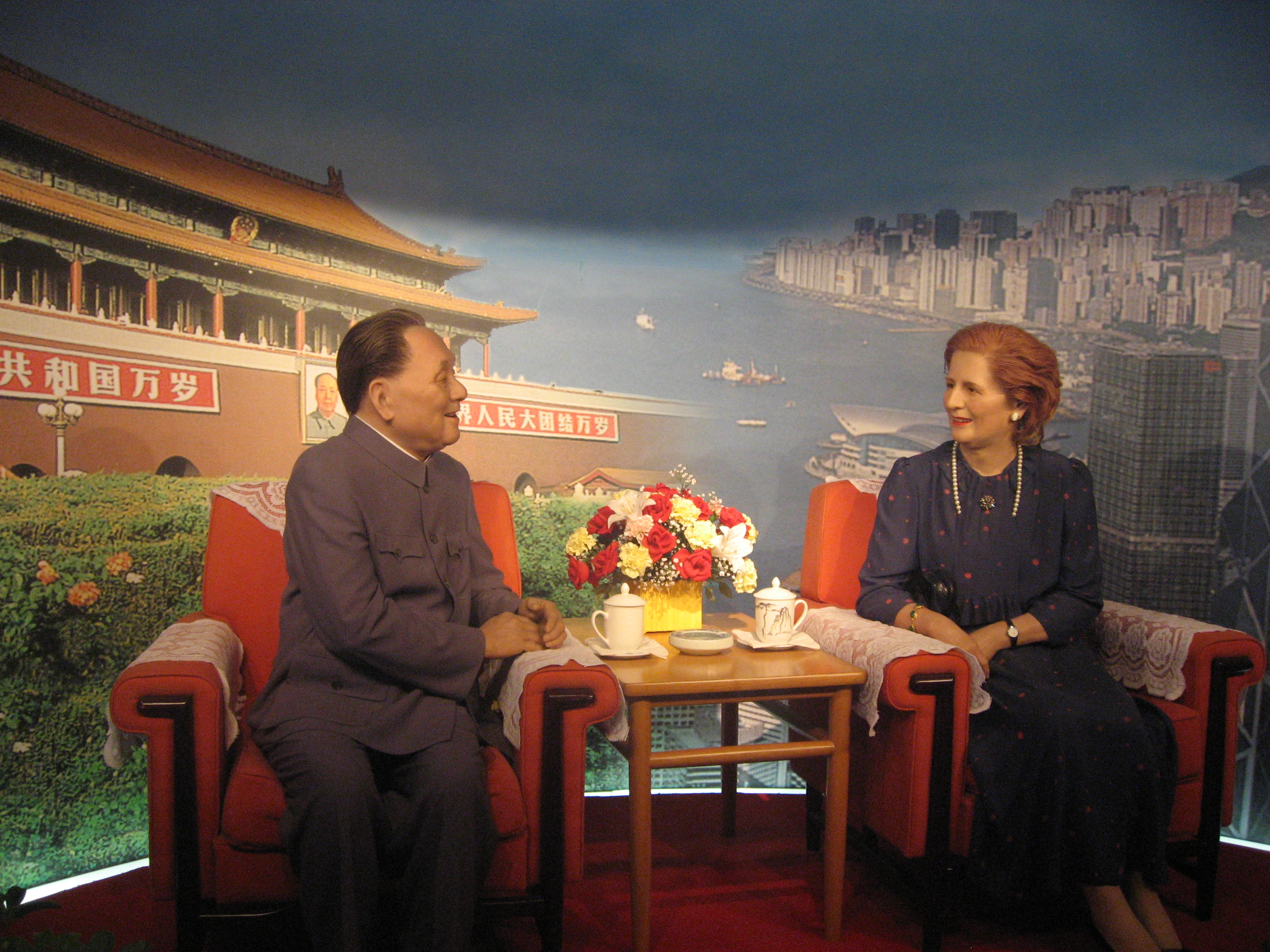 Reconstruction of the important meeting between Deng Xiaoping and Margaret Thatcher in Beijing on 24 September 1984 with talks about the future of Hong Kong - at the visitors platform of the Diwang Dasha in Shenzhen